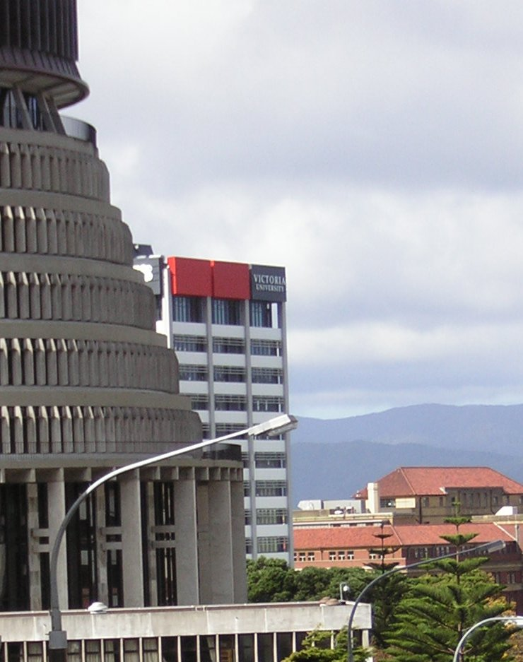 Rutherford House and Beehive, Wellington, New Zealand.